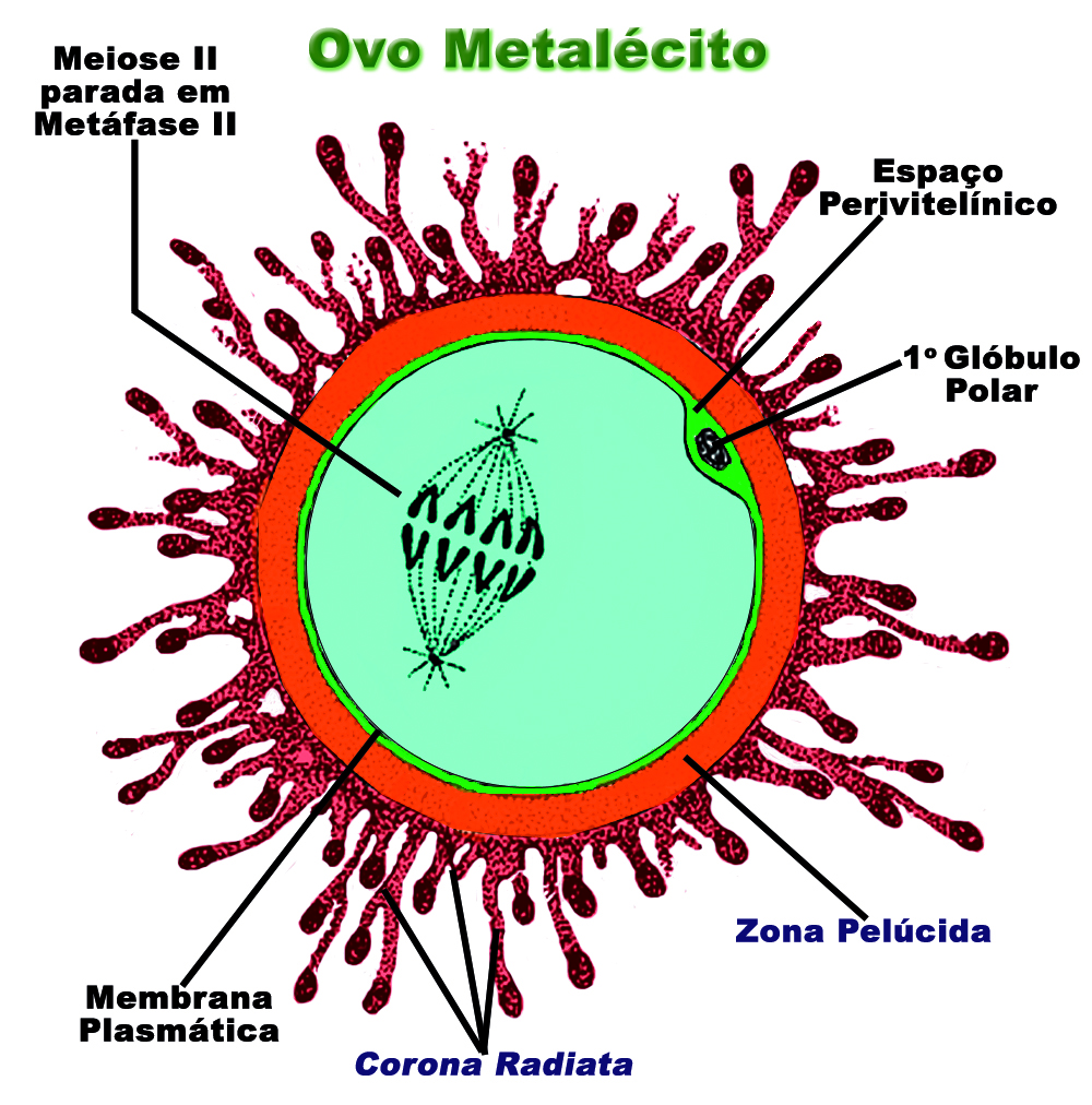 ovum of mammal - draw by Heijy Okada